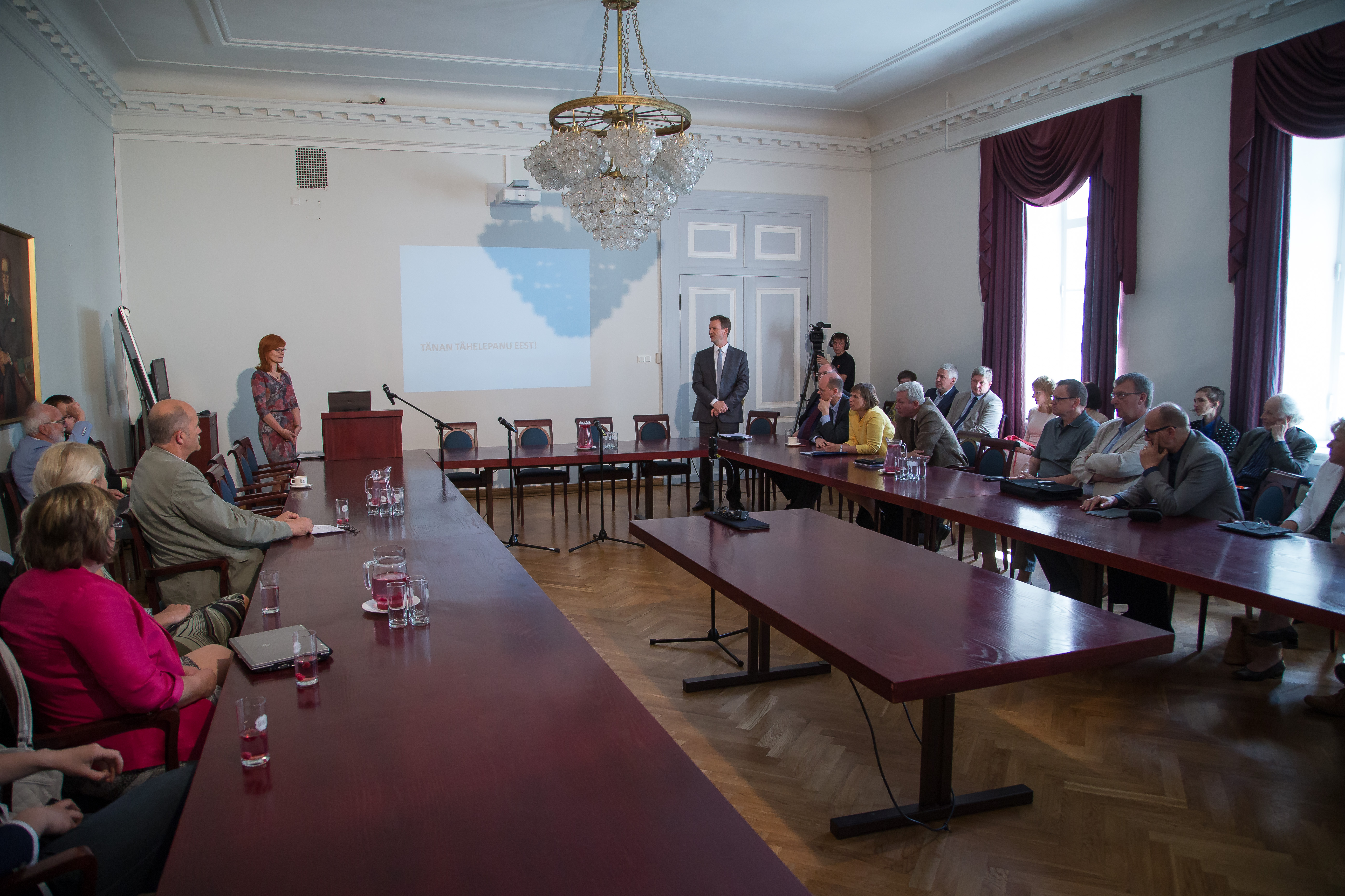 Council of the University of Tartu seminar "Risk management and developing of entrepreneurship inside the university".